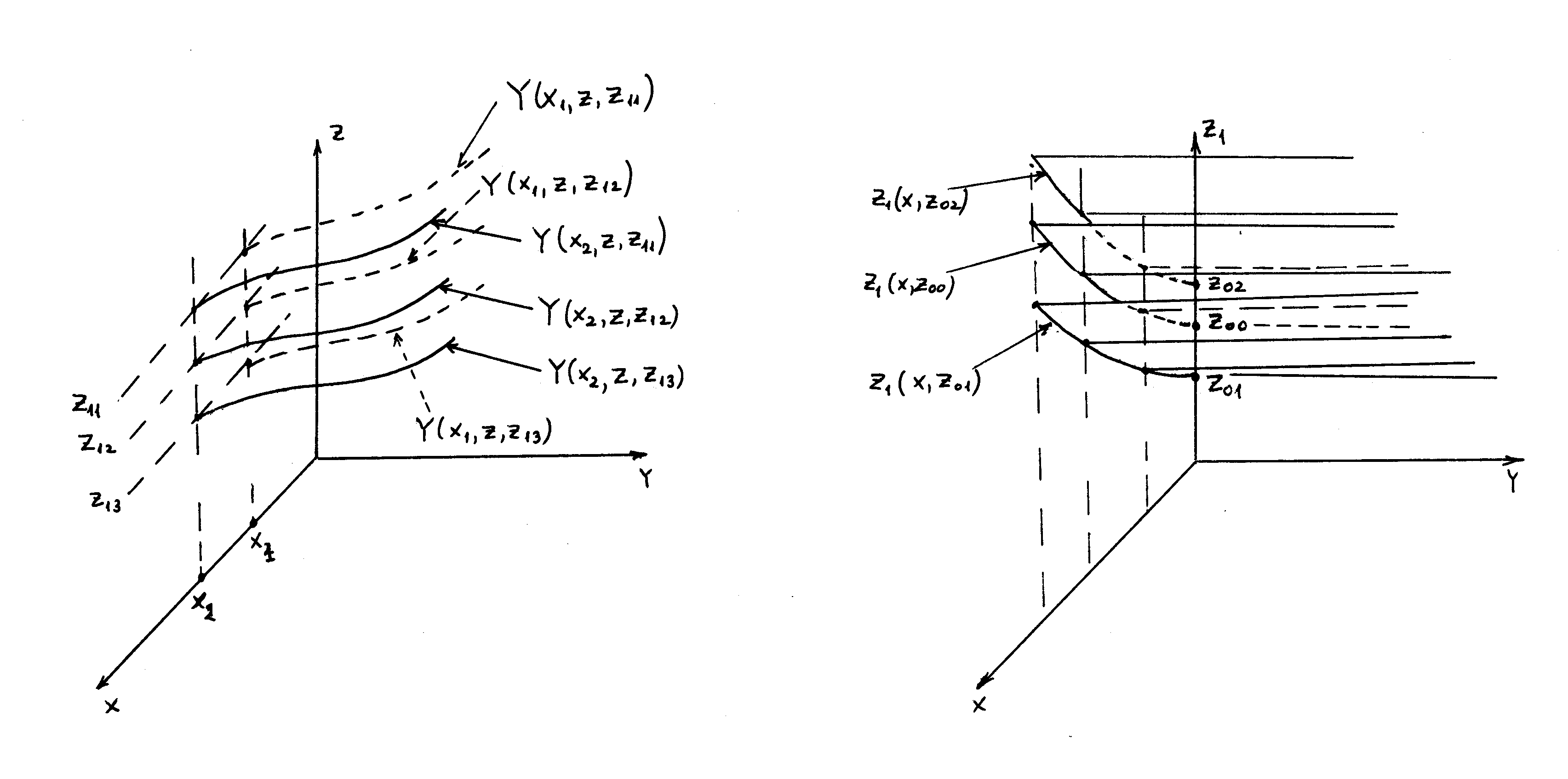 Graphical interpretation of integration of differential forms